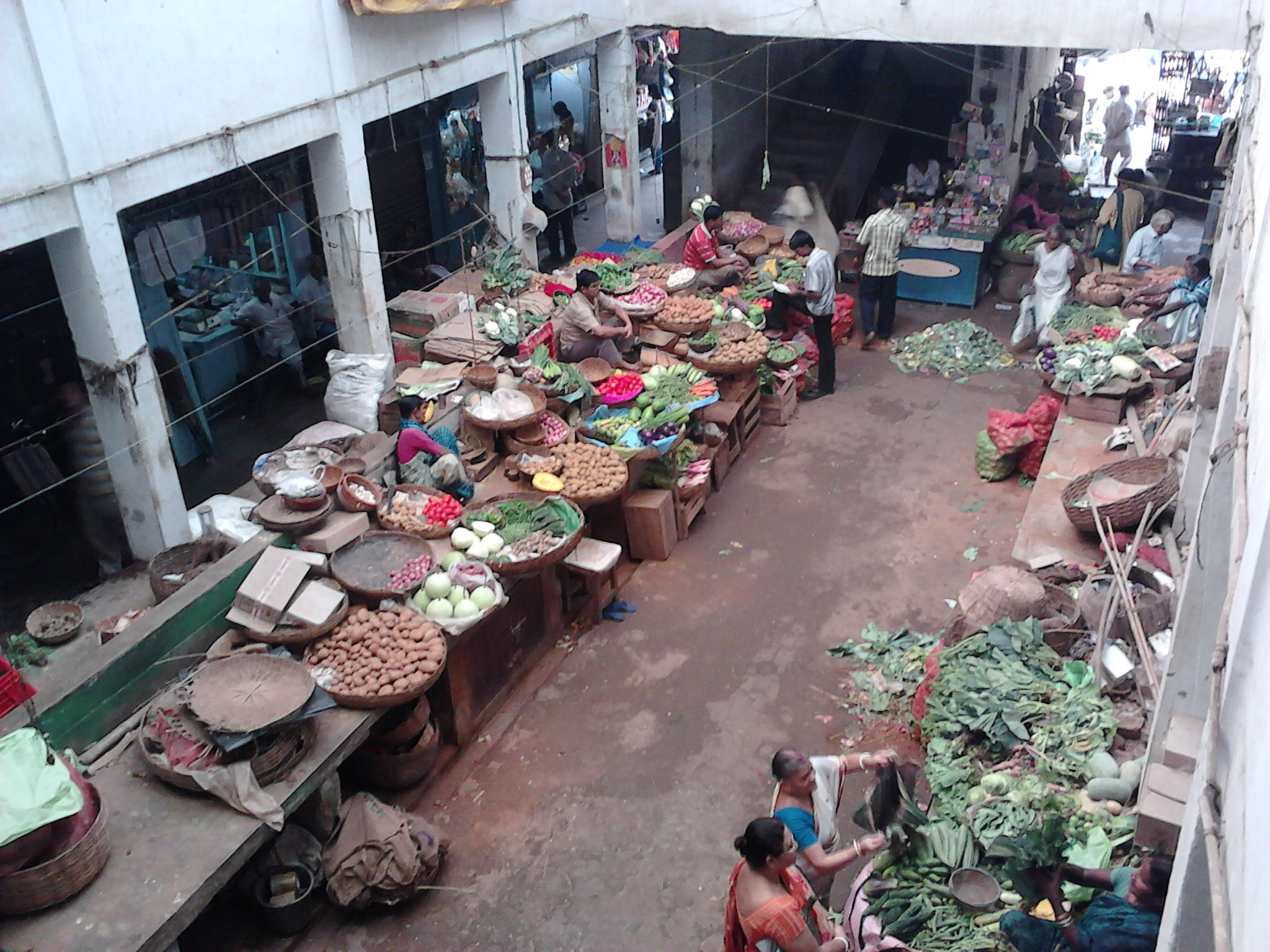 Howrah Municipal Corporation owned market (Danesh Sheikh lane Market) located at 72 Danesh Sheikh lane, Howrah. This media file is uploaded with India loves Wikipedia event.